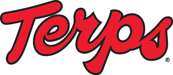 The "Terps" logo for the Maryland Terrapins, the athletic teams for the University of Maryland, used between 1982 and 2011. This logo was discontinued from use by the university in 2011.